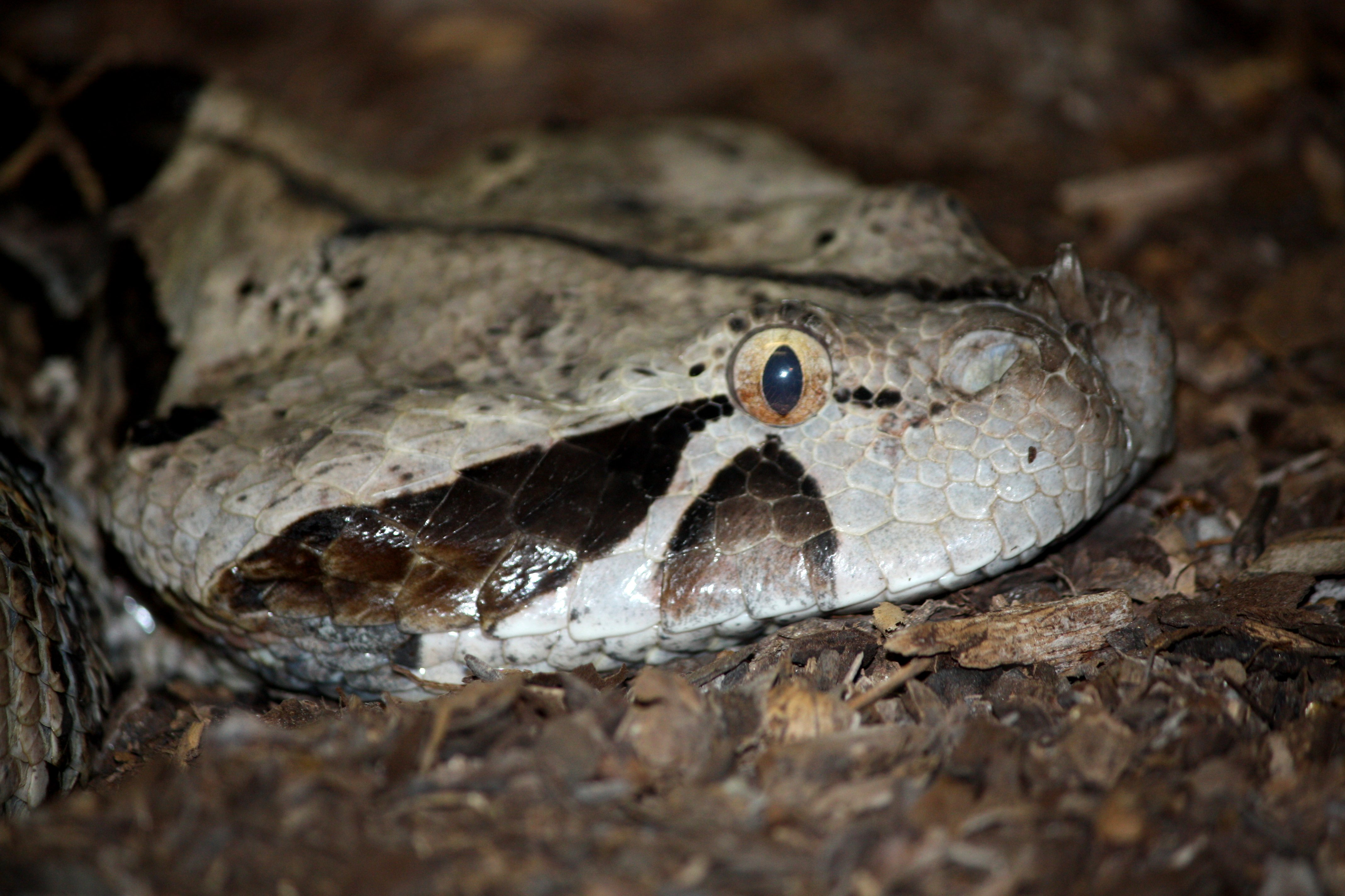 Gaboon Viper Bitis gabonica at the Louisville Zoo